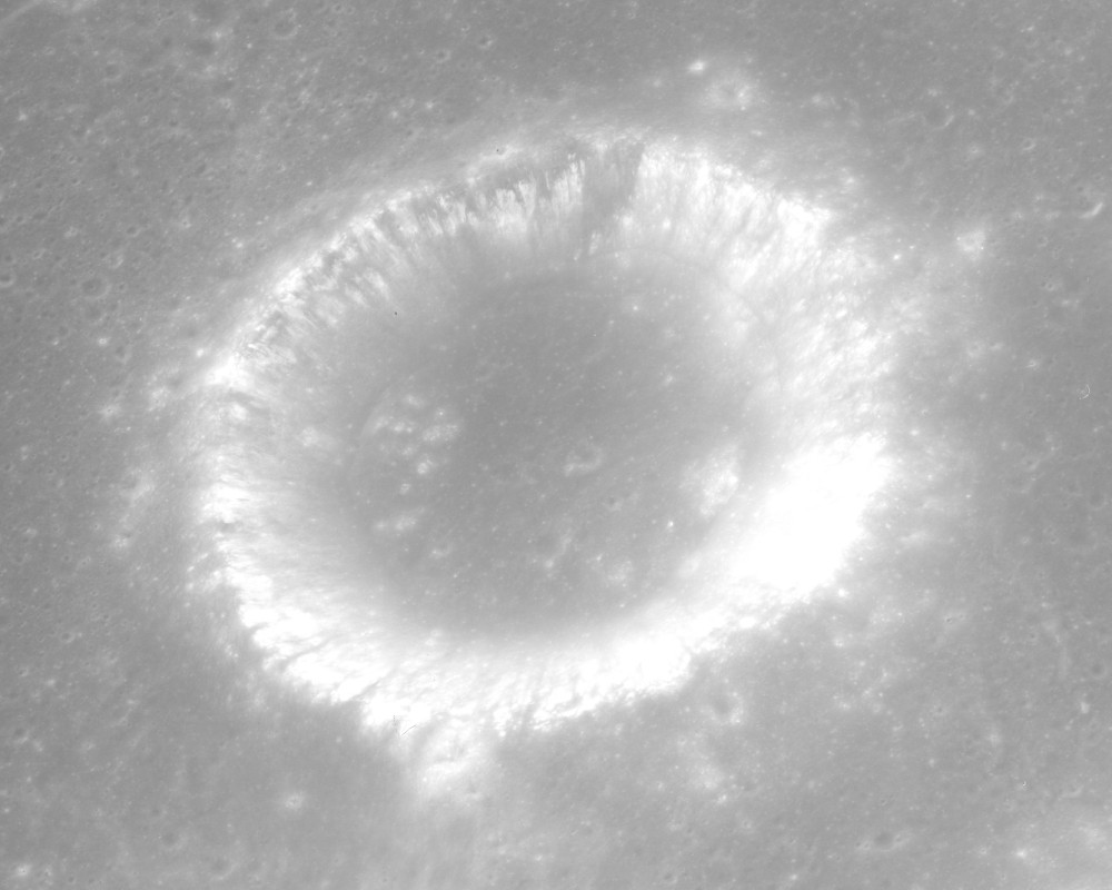 Oblique view of Al-Bakri crater, on the moon, facing south.